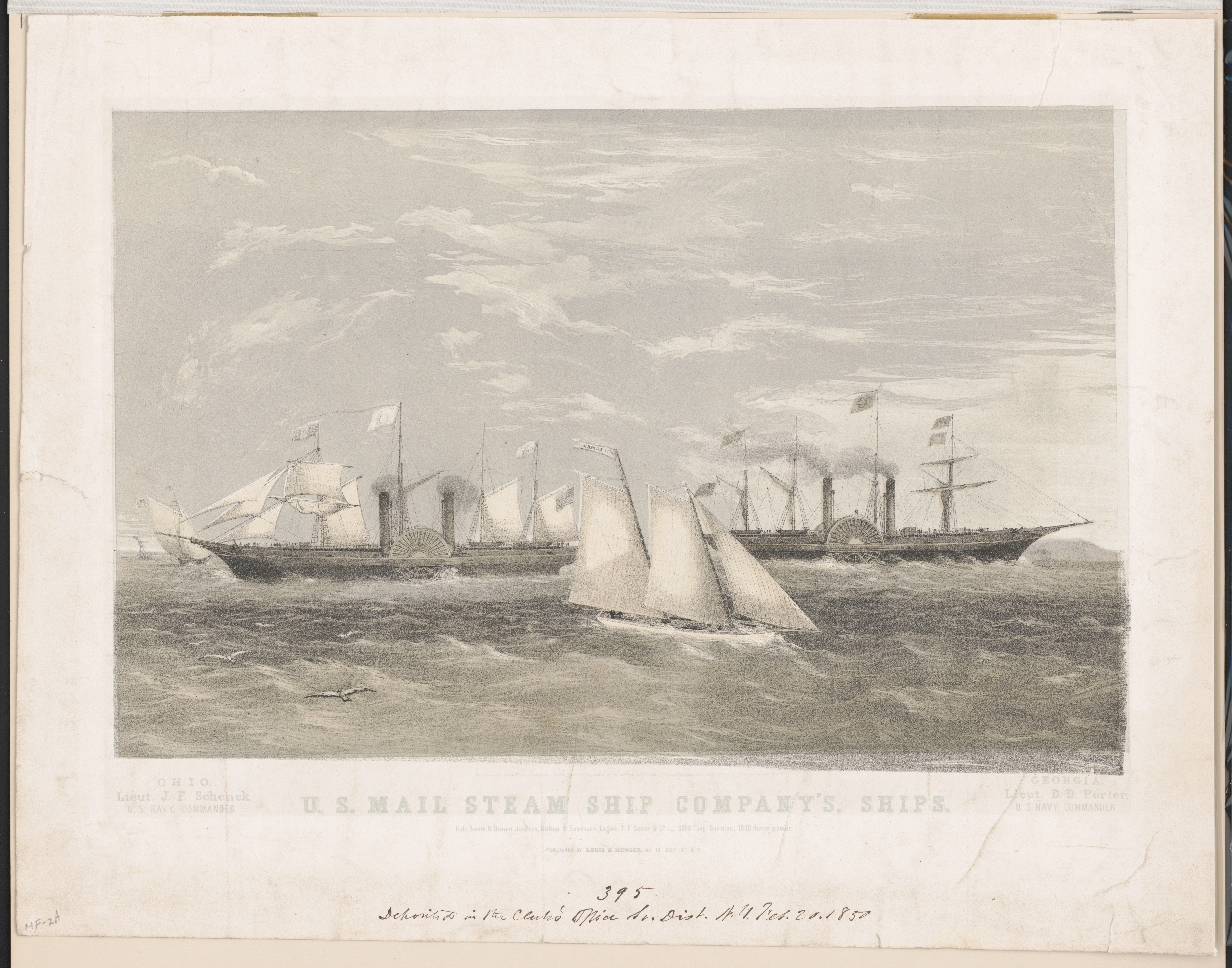 Title: U.S. mail steam ship company's, ships Abstract/medium: 1 print.